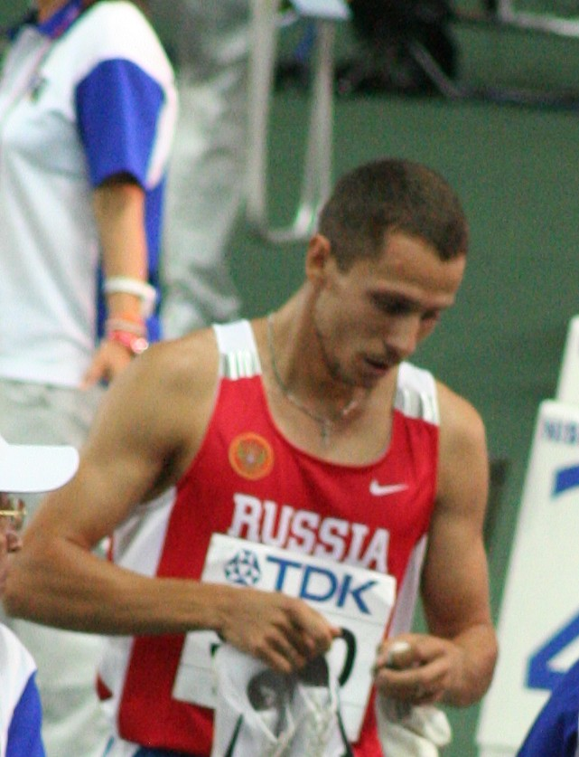 World Athletics Championships 2007 in Osaka - 800 metres runner Yuriy Borzakovskiy after the semifinal